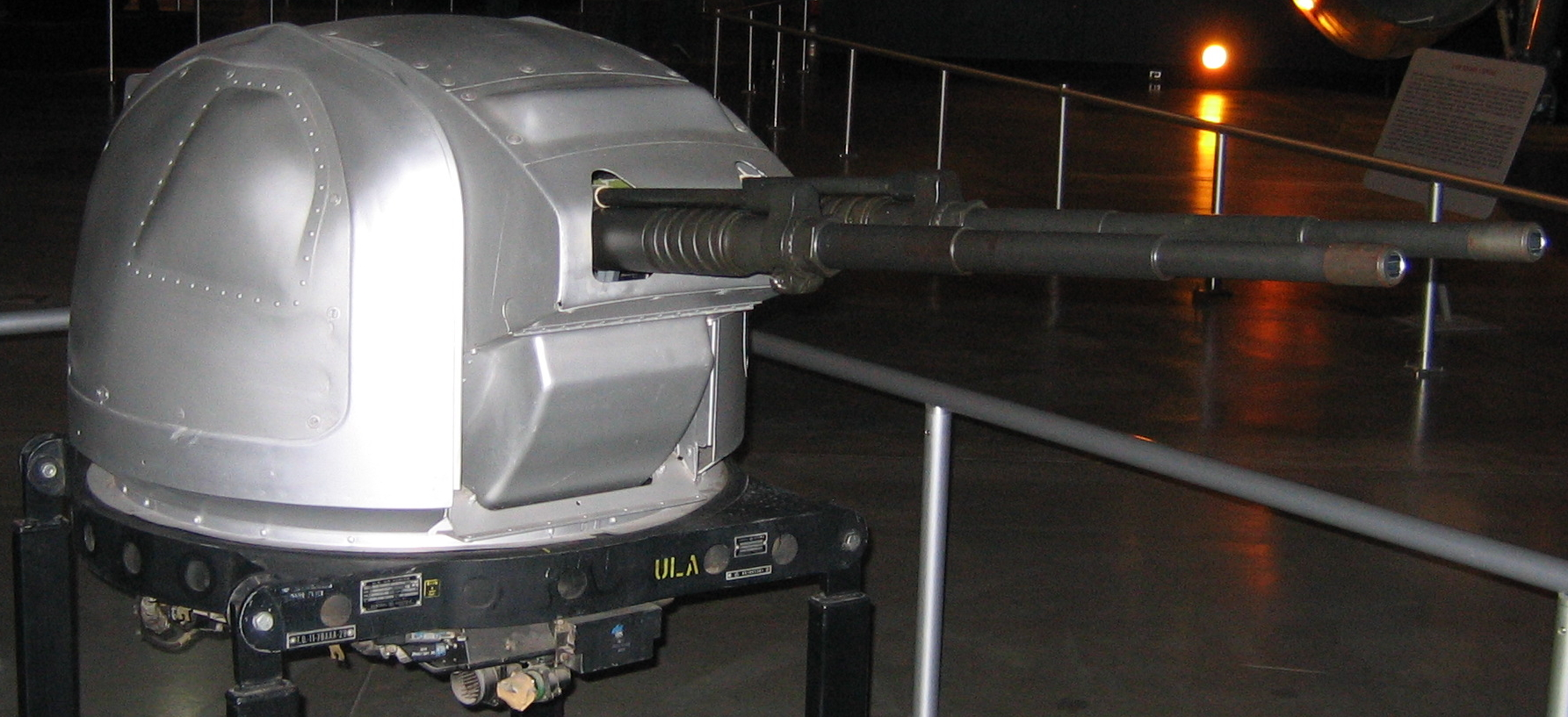 Dismounted B-36_Peacemaker gun turret at the National Museum of the United States Air Force, Dayton, Ohio